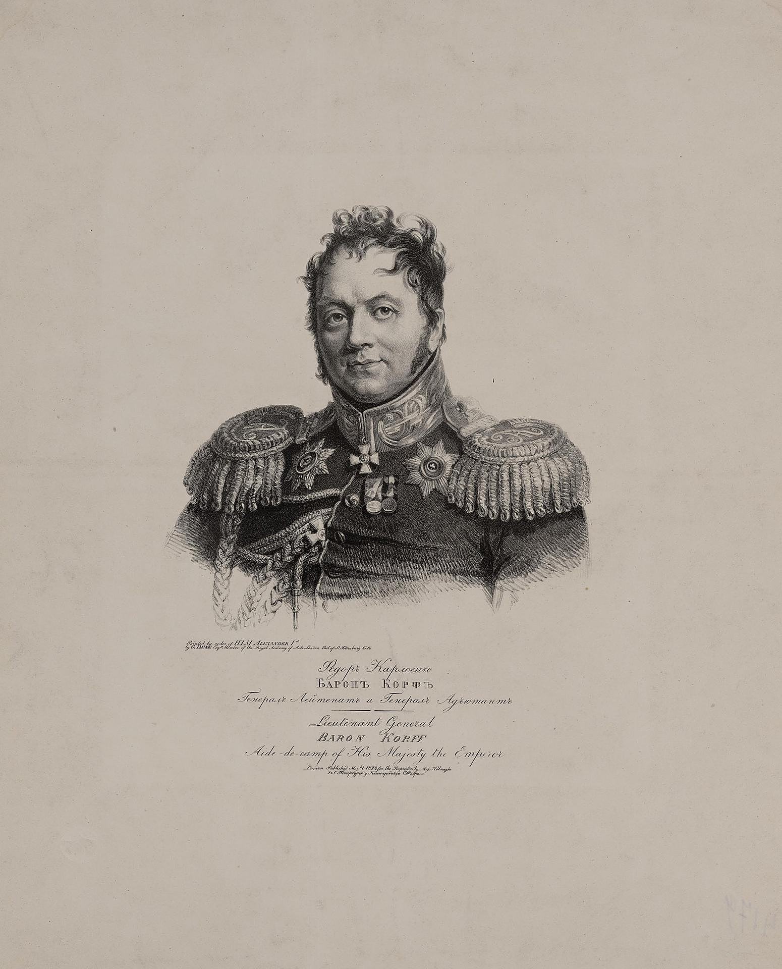 Baron Korf, Fyodor Karlovich (05.04.1773 – 30.08.1823) russian lieutenant general